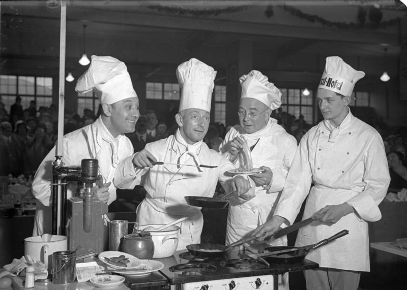 German film actors cook the bet! At the Berlin Culinary Art Exhibition in the exhibition halls at Imperial Dam, the most prominent German actors showed their art in cooking. Fritz Kampers (left) and Paul Westermeyer (right) admire the culinary art of film comedian Paul Gratz on the culinary exhibition.